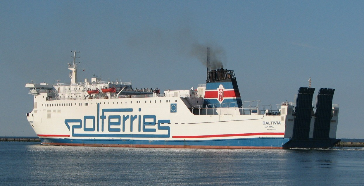 Baltivia leaving Gdansk, Poland IMO Number: 7931997 MMSI Number: 309826000 Callsign: C6WN5 Length: 147 m Beam: 24 m